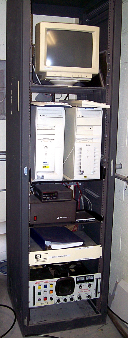 Rochester Institute of Technology Amateur Radio Club K2GXT repeater rack. Top to bottom: Monitor, ARPS digipeater and iGate, EchoIRLP node controller, APRS radio, power supply, repeater controller, 70cm repeater. The repeater is located on top of Ellingson Hall, the tallest building on the RIT campus.